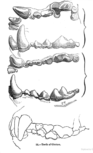 Teeth of a wolverine